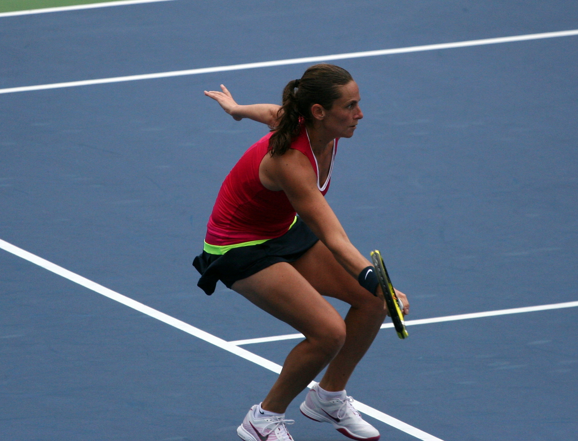 Roberta Vinci at 2012 US Open Wednesday, Sept. 5, 2012